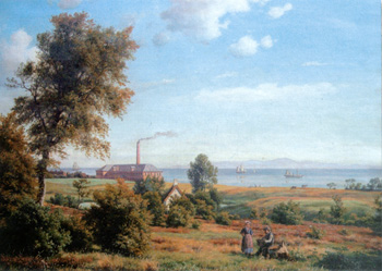 Painting with Hellebæk Klædefabrik from Hellebæk at Helsingør, Denmark